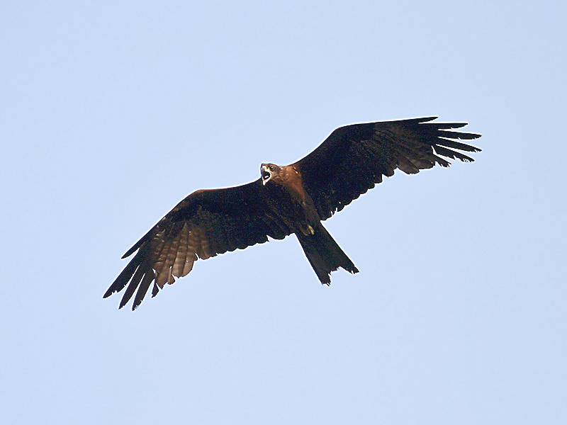 Black Kite Milvus migrans in Kolkata, West Bengal, India.